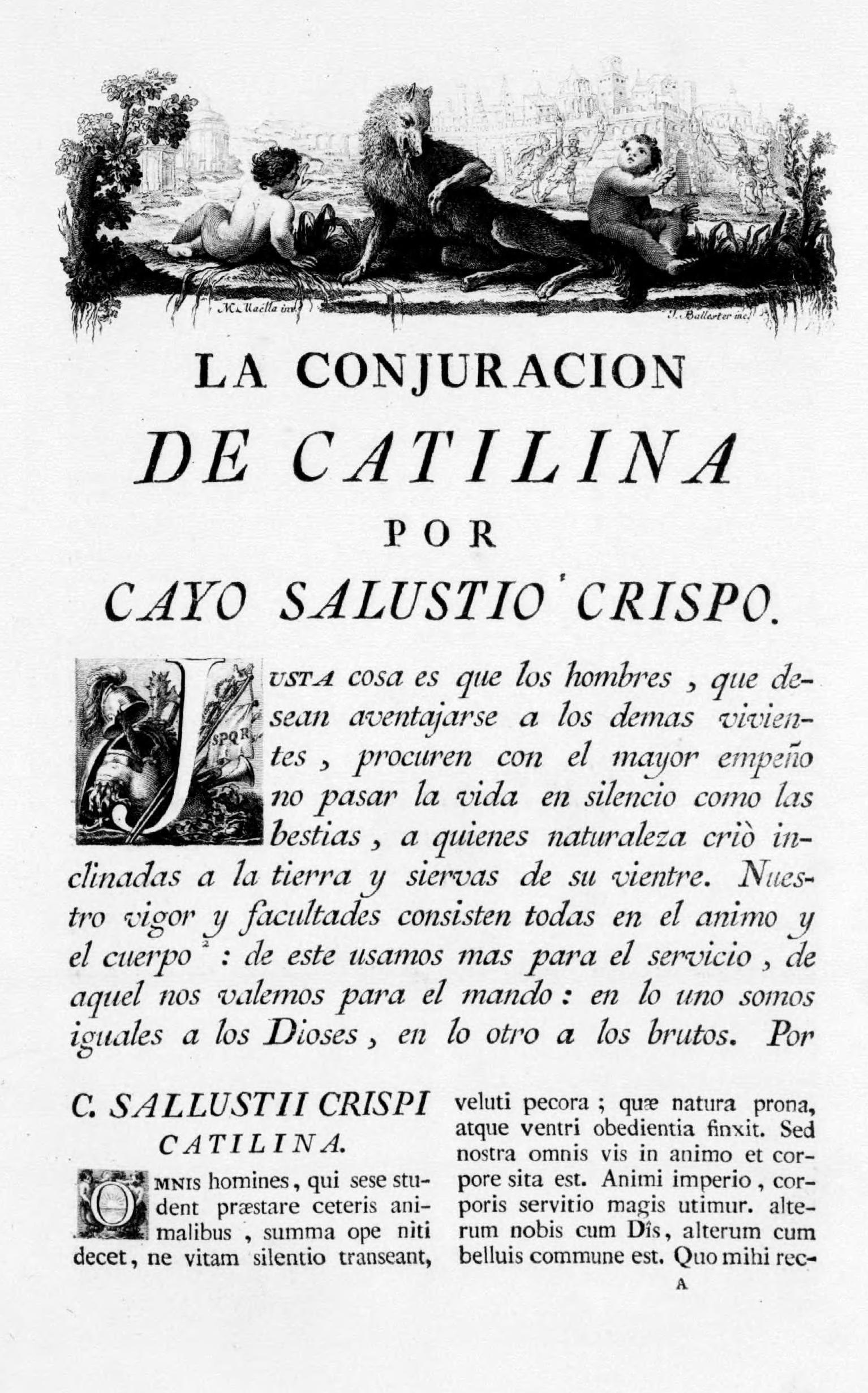 First page of Spanish edition of Sallust's De coniuratione Catilinae ("La conjuracion de Catilina"), pressed by Joaquin Ibarra in Madrid on 1772. Size: 27 x 36 cm.